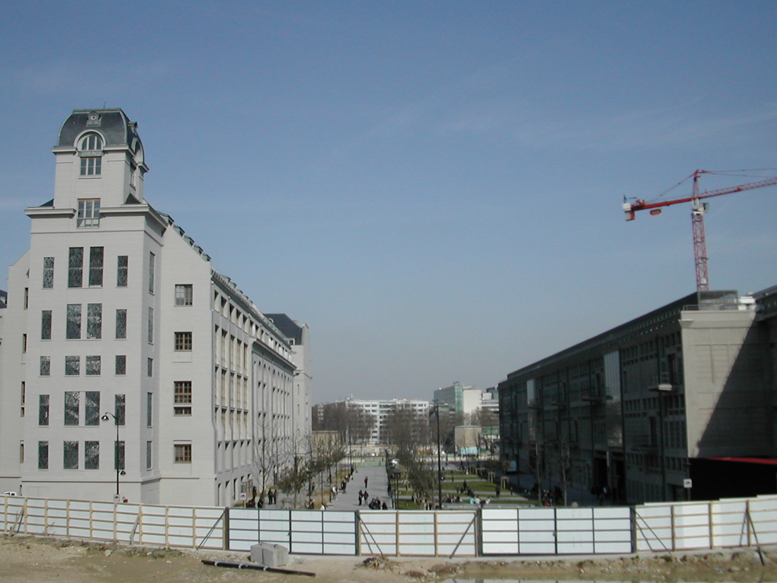 The "Grands Moulins de Paris" and the "Halle aux Farines" in Paris 13, host of the University Paris Diderot